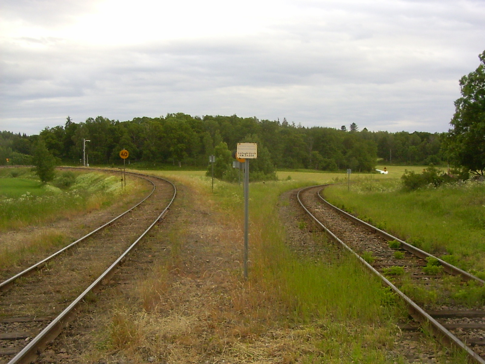 Tjustbanan (left) and Stångådalsbanan (right) join at Bjärka-Säby